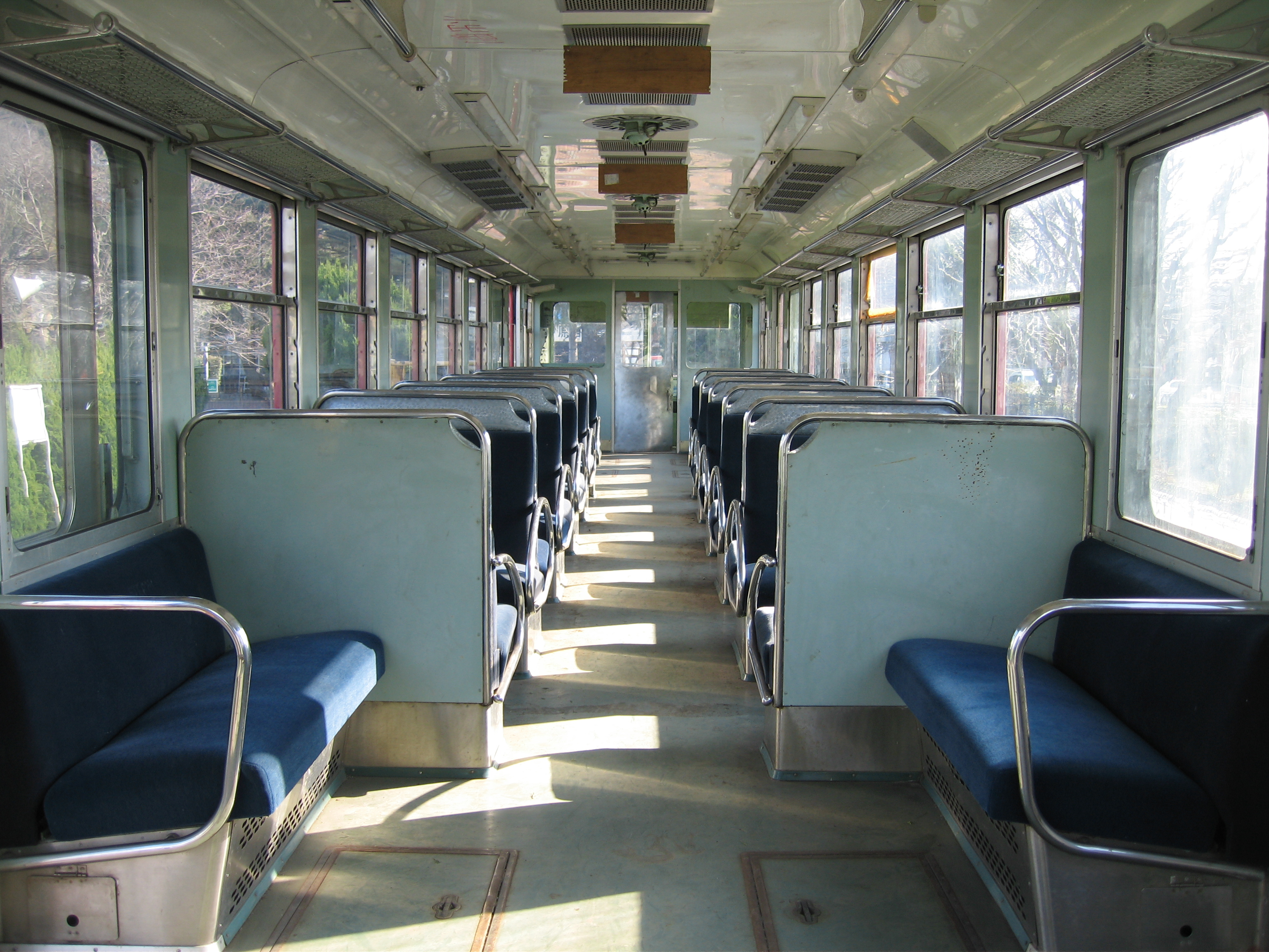 Interior of preserved Keikyu 600 series EMU car DeHa 601 in Zushi, Kanagawa Prefecture, Japan